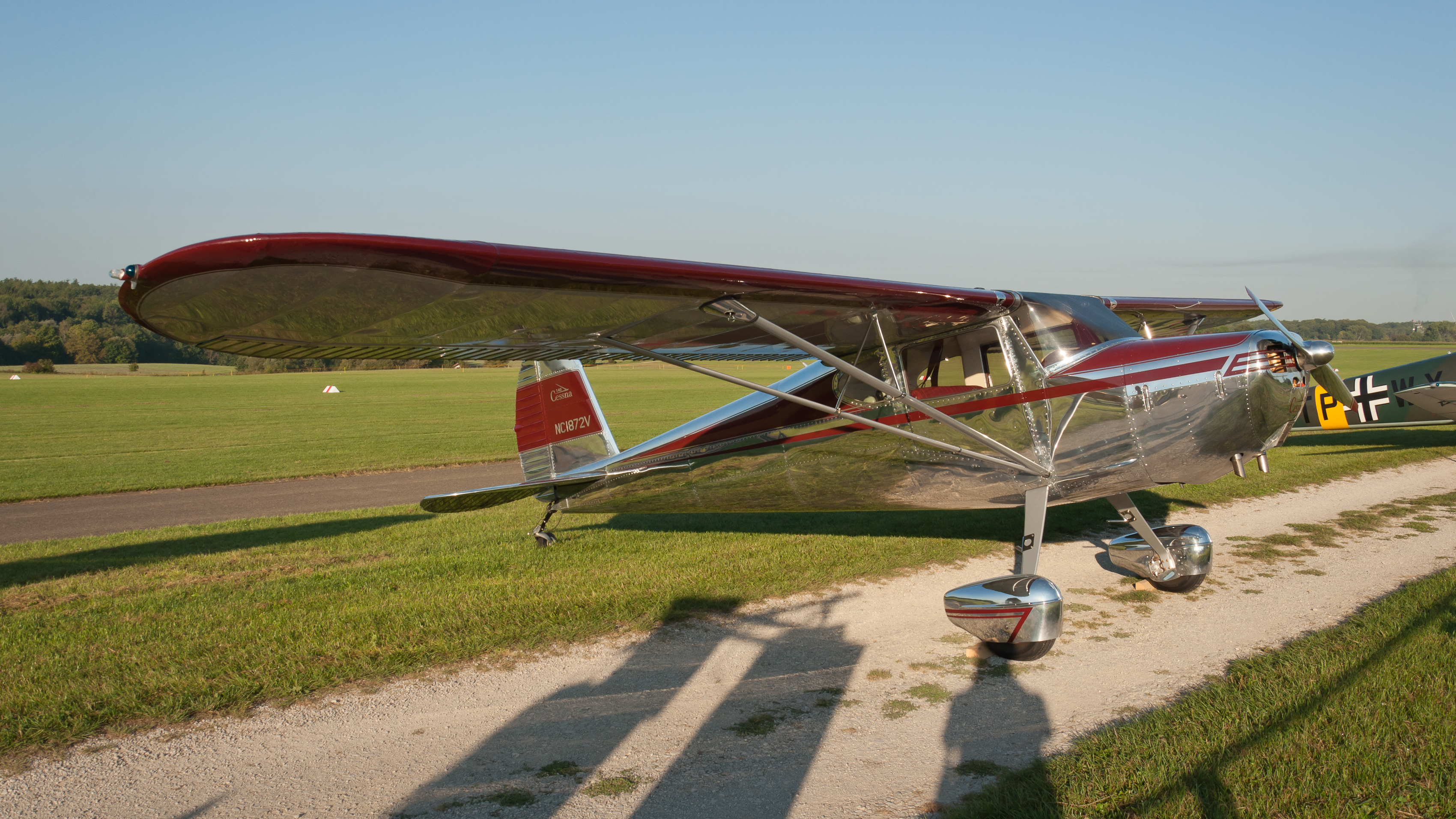 Cessna C 140 (reg. NC-1872V, built 1947) at Oldtimer Fliegertreffen Hahnweide 2013.